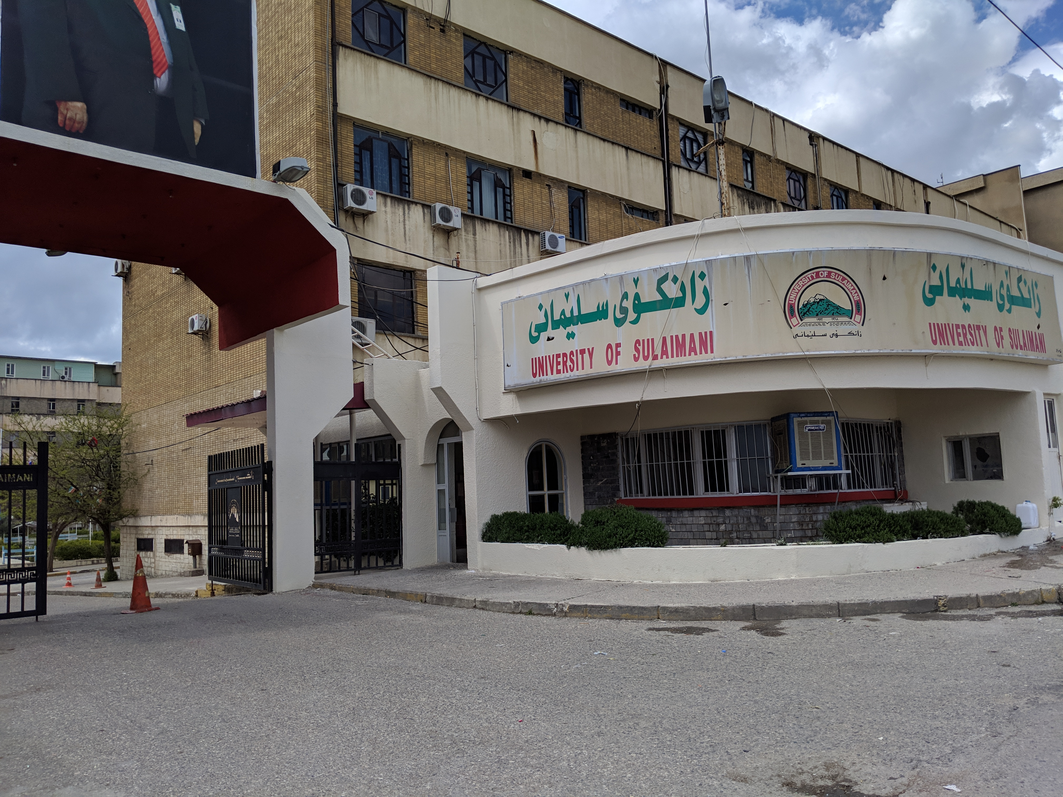 University of sulaimani front gate (old campus)